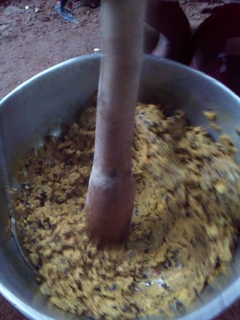 A popular meal in Mmuock Leteh